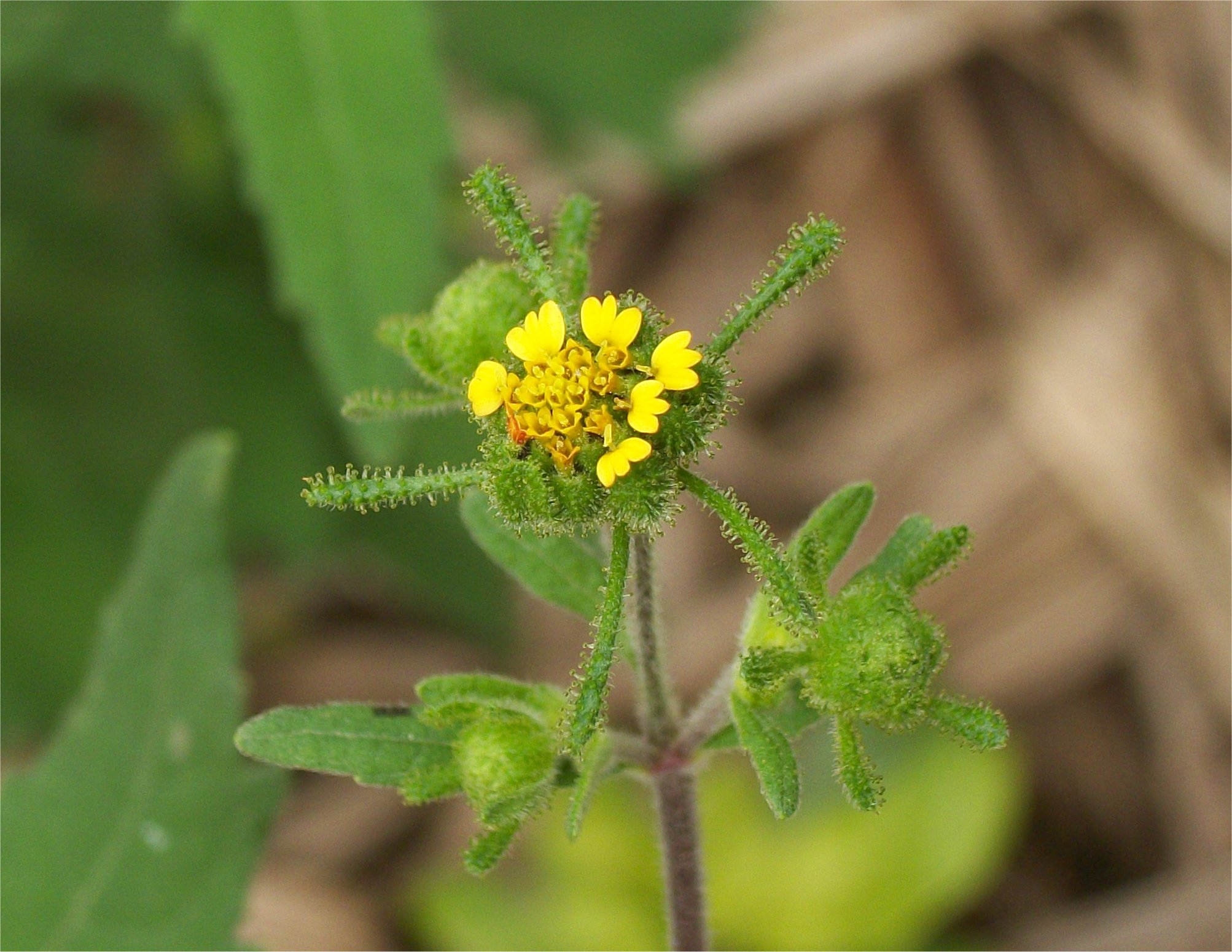 Sigesbeckia orientalis - flower